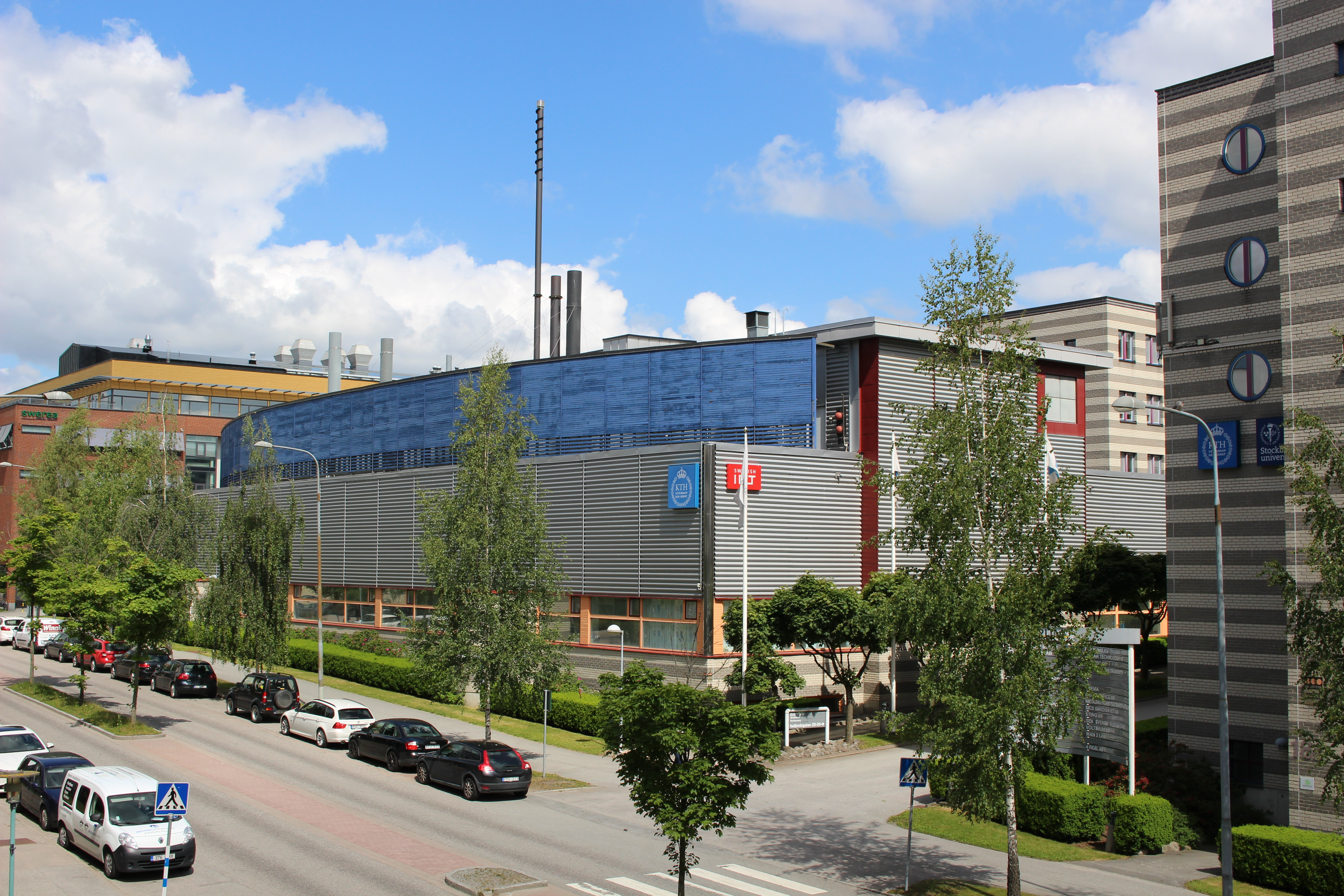 The Electrum laboratory in Kista, Sweden.